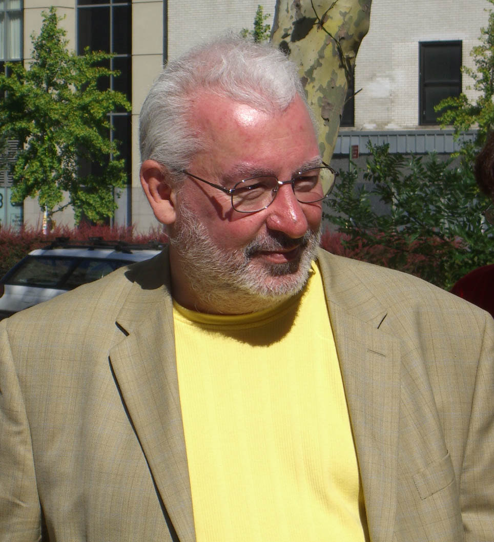 Comic book creator Tom DeFalco at the 2009 Brooklyn Book Festival.